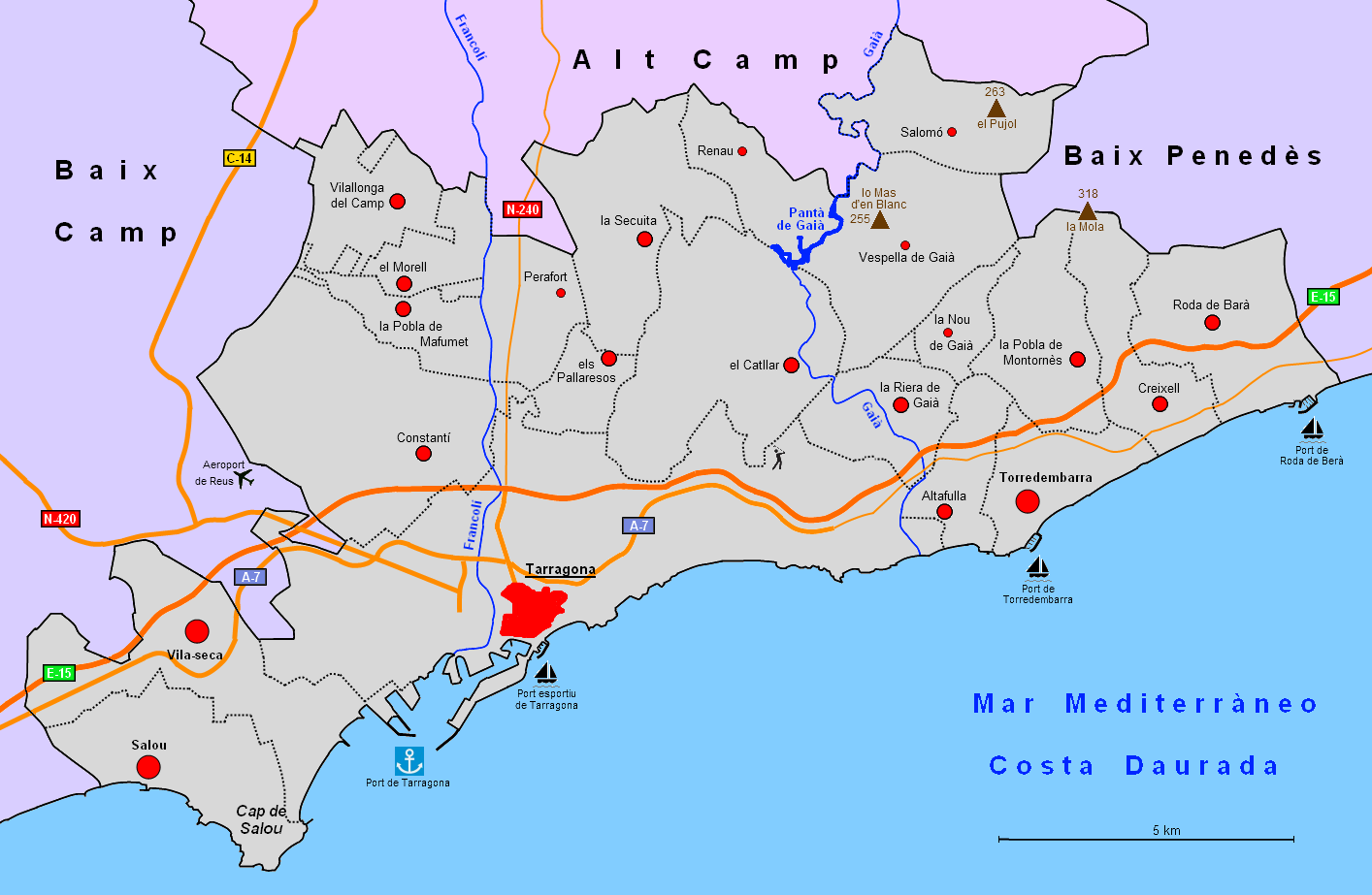 Map of the comarca Tarragonès, Catalonia, Spain